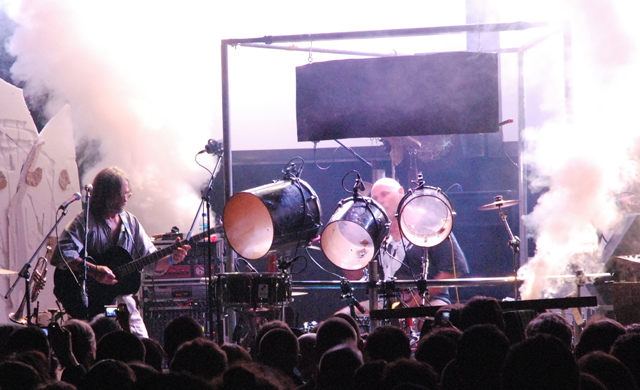 Faust performing at the Futuresonic Festival in Manchester, United Kingdom, 2007-05-11. From the left: Jean-Hervé Péron and Werner "Zappi" Diermaier. Off-camera: Amaury Cambuzat and Zoë Skoulding.